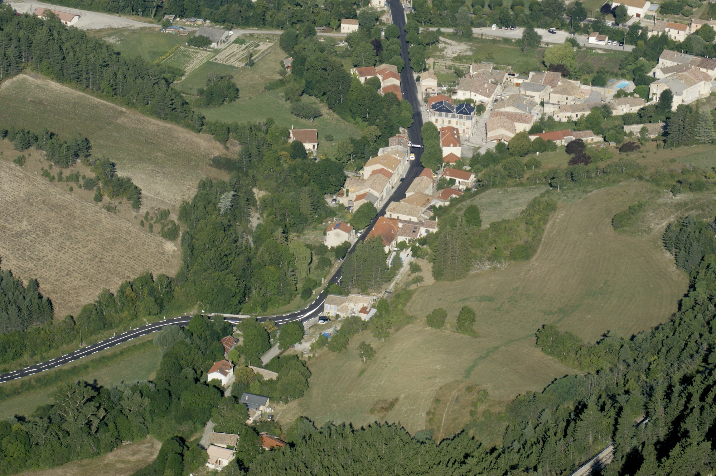 Beaurières aerial photography